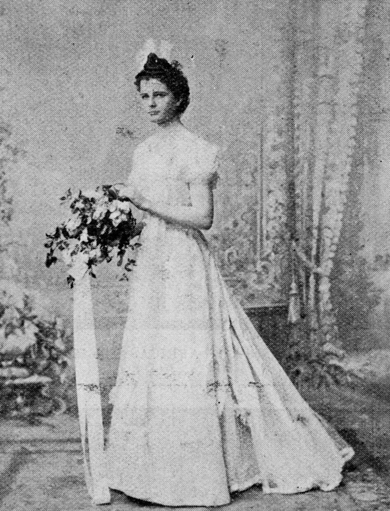 Miss May Goggs, a Brisbane Debutante in 1900.